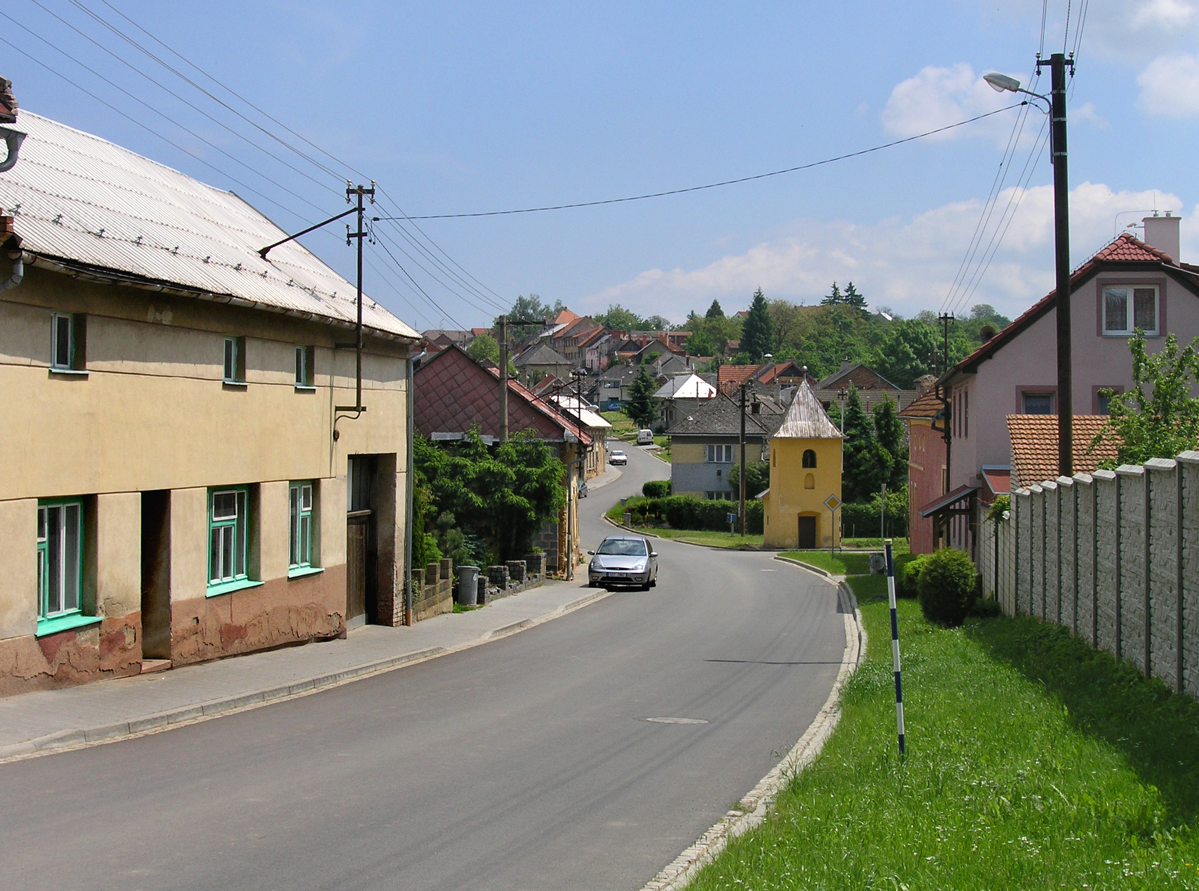 Main street in Slížany, part of Morkovice-Slížany town, Czech Republic